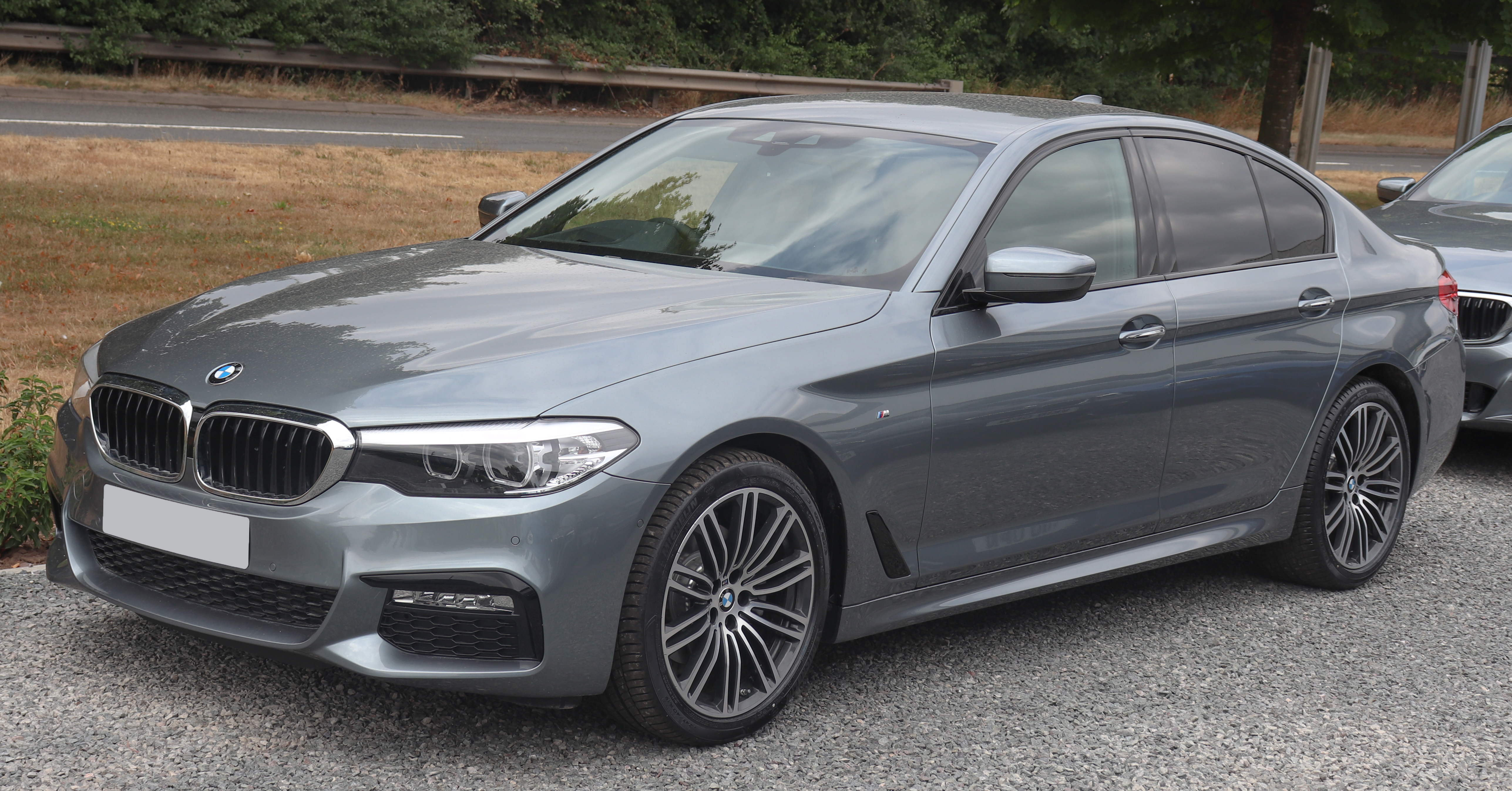 2018 BMW 520d xDrive M Sport Automatic 2.0 Front Taken in Leamington Spa